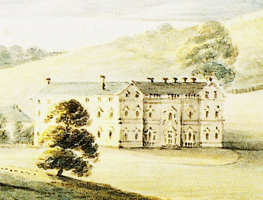 Lupton House, Brixham, Devon. 1793 Watercolour by Rev John Swete "Lupton, seat of Sir Francis Buller", dated December 1793. Devon Record Office DRO 564M/F4/140